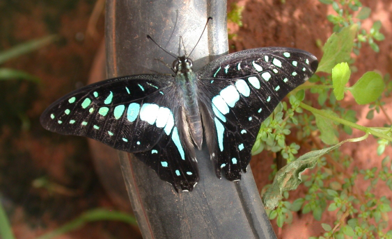 Common jay Graphium sarpedon adult upperside